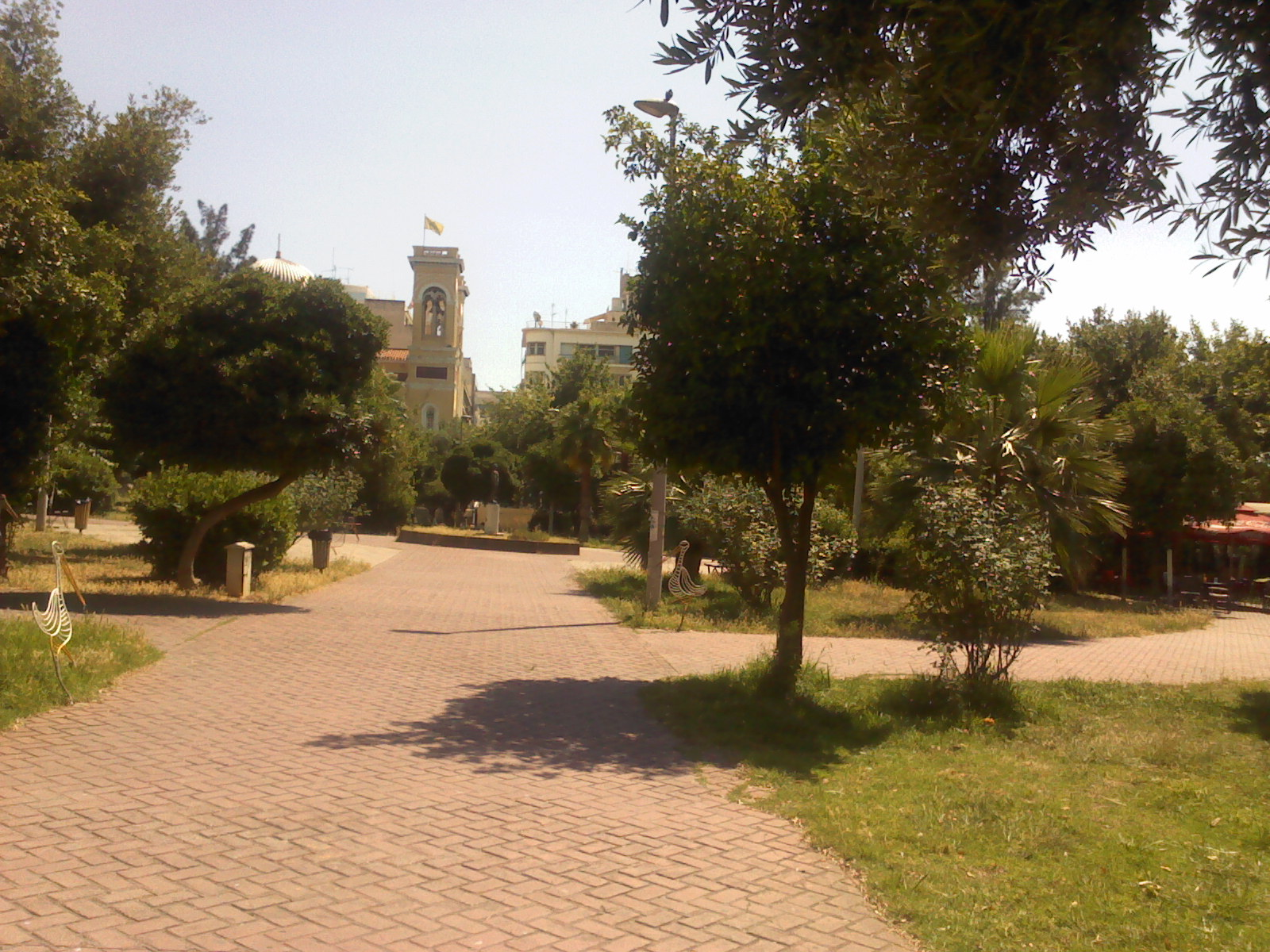 Plateia Themostokleous